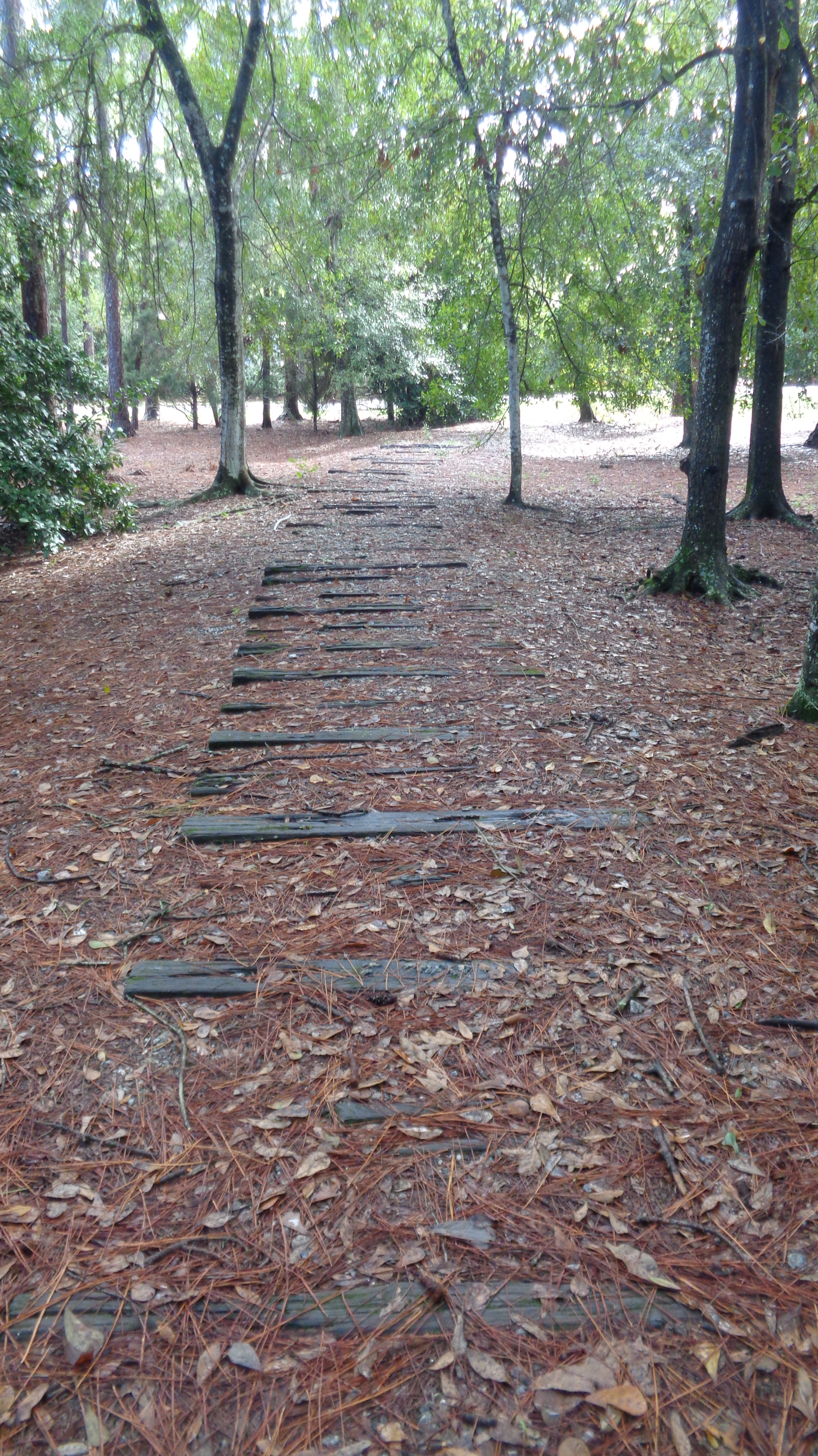 The former right-of-way of the Fort Wilderness Railroad within the Fort Wilderness Resort & Campground in Walt Disney World. This picture was taken off of Fort Wilderness Trail between Cinnamon Fern Way and Jack Rabbit Run, just north of the Loops 600-800 bus stop.